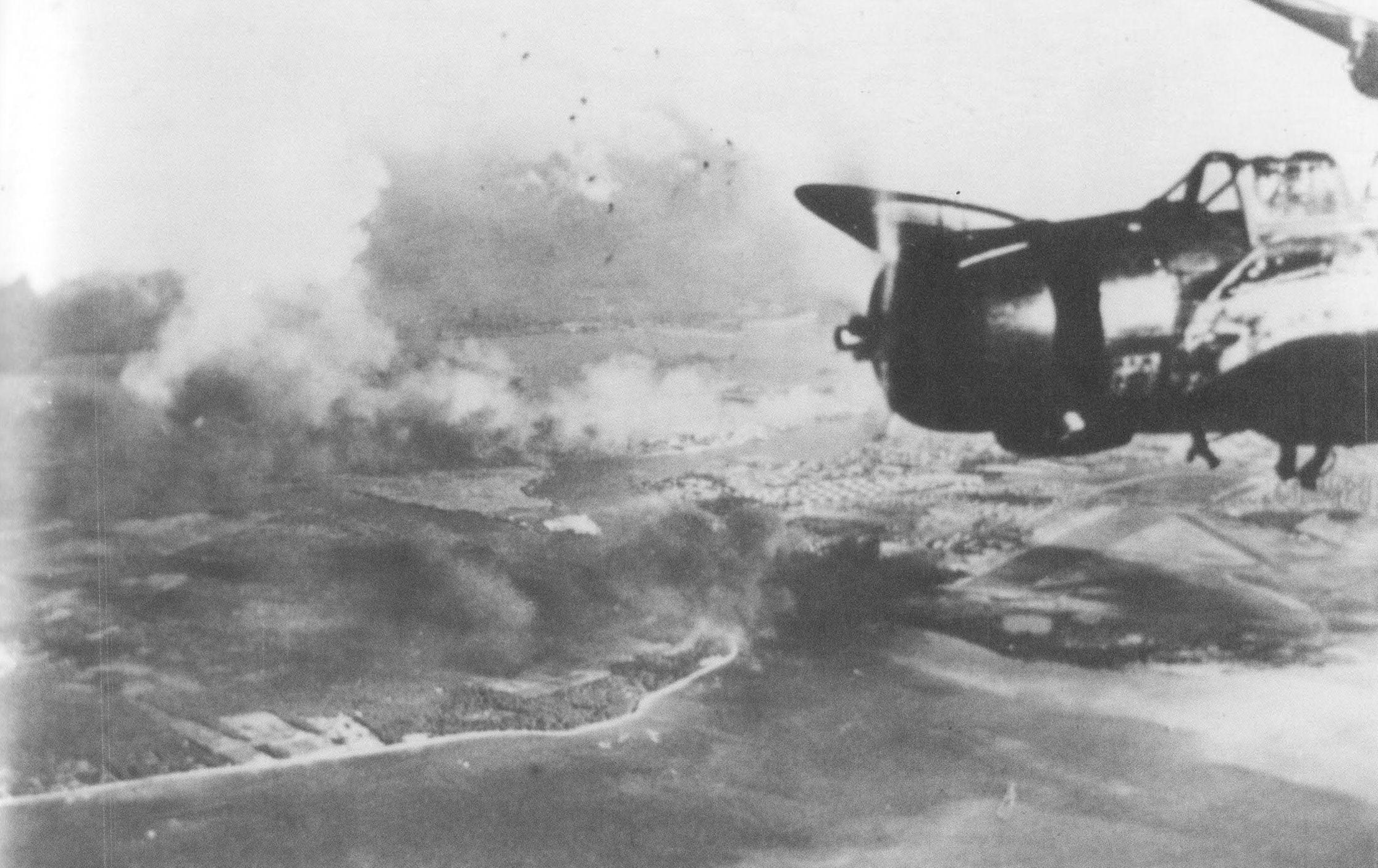 Nakajima B5N level/torpedo bombers from the Imperial Japanese Navy aircraft carrier Kaga head towards their rendezvous point after attacking US Navy ships in Pearl Harbor during the first wave of attacks.